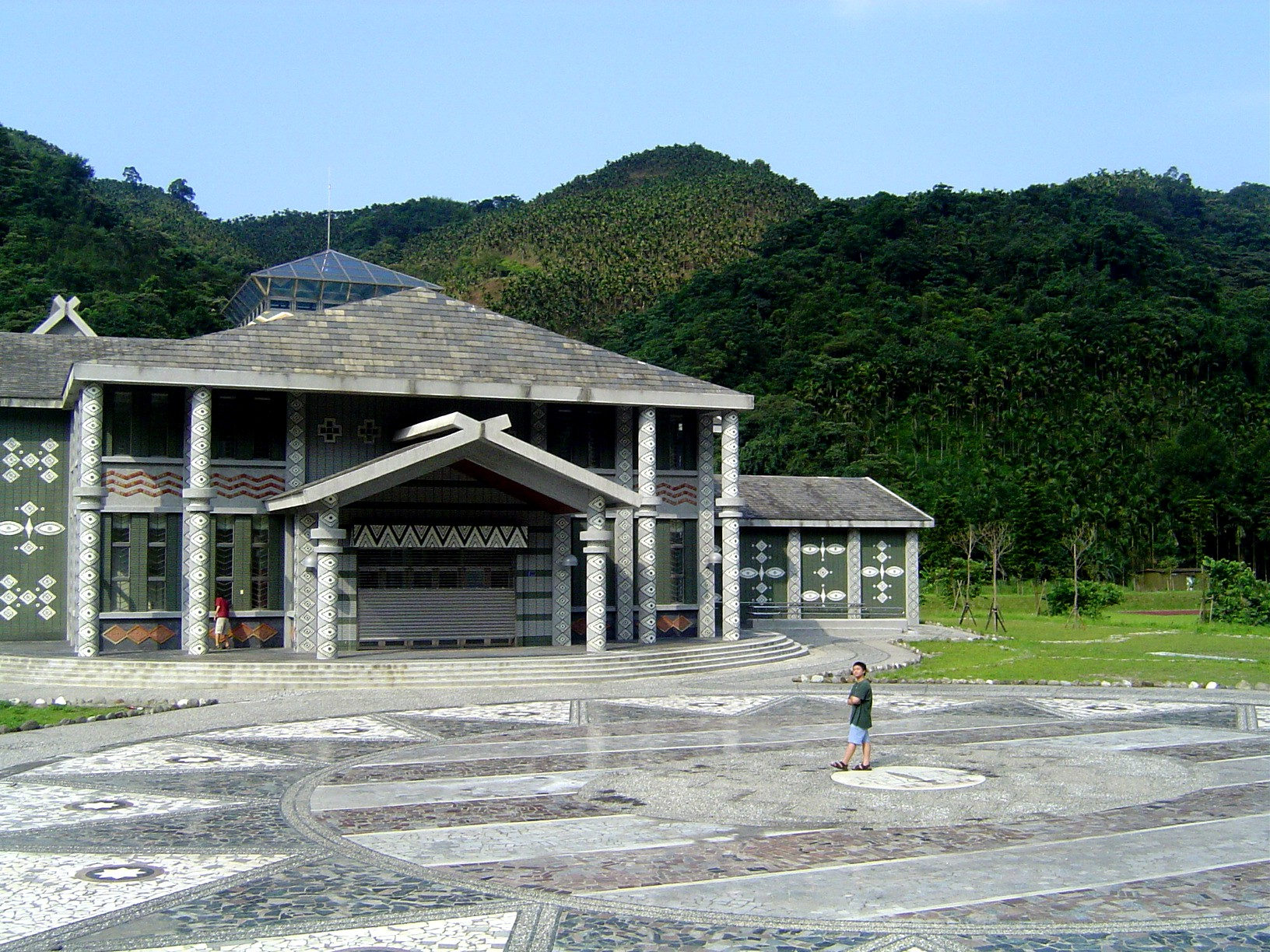 Traditional aboriginal designs are often found on modern buildings in Taiwan in places where aborigines traditionally live. Here is an Atayal-inspired building in Ilan County. It is a rural community center. Photo taken in 2004.